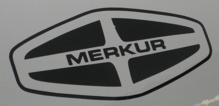 The Merkur logo on the front of an XR4Ti Trans-Am race car.